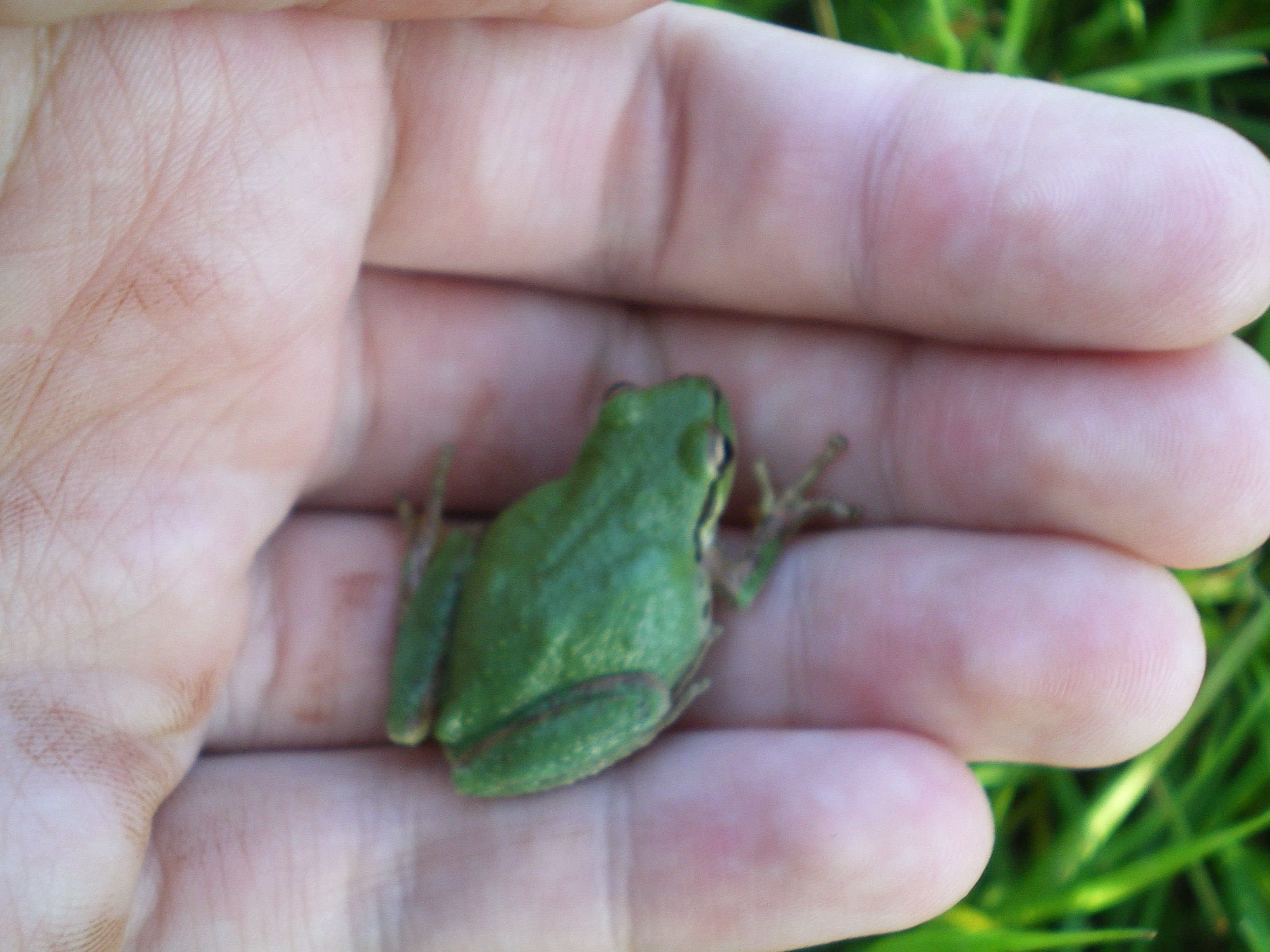 Pacific Tree Frog (green) Taken mid-winter at Lake Lagunita in Stanford, CA, among a large population that came to mate in the vernal pools.